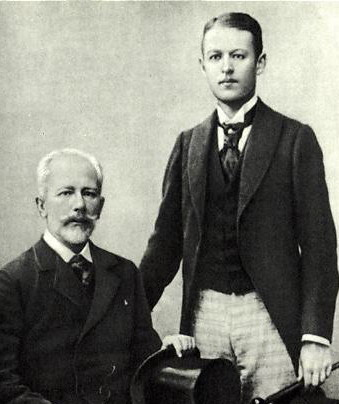 Pyotr Tchaikovsky and Bob Davydov, his nephew